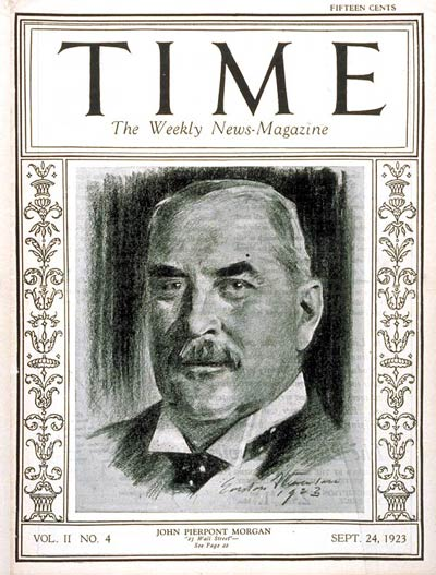 TIME Magazine Cover Featuring J. P. Morgan (24 Sep 1923)